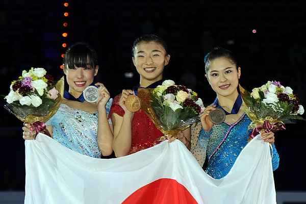 Photos – Four Continents Championships 2018 – Ladies (Medalists)